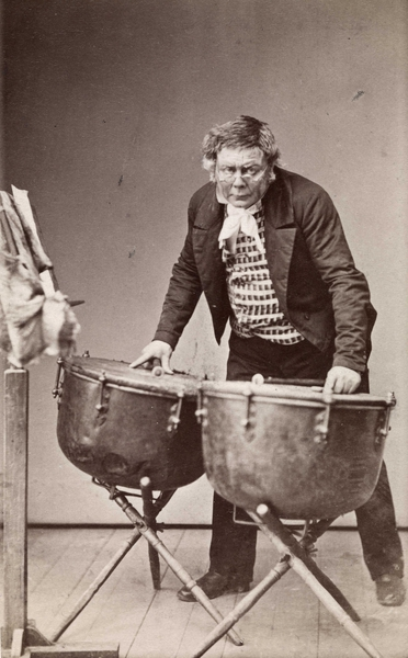 Portrait of the Norwegian actor Johannes Brun (1832-1990) by the Norwegian photographer Marie Magdalene Bull. It pictures him acting in "Hun skal debutere".